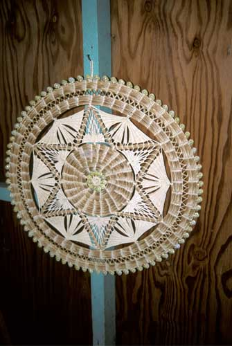 A woven decoration woven of "rito", bleached coconut fibres. Majuro Atoll, Marshall Islands.